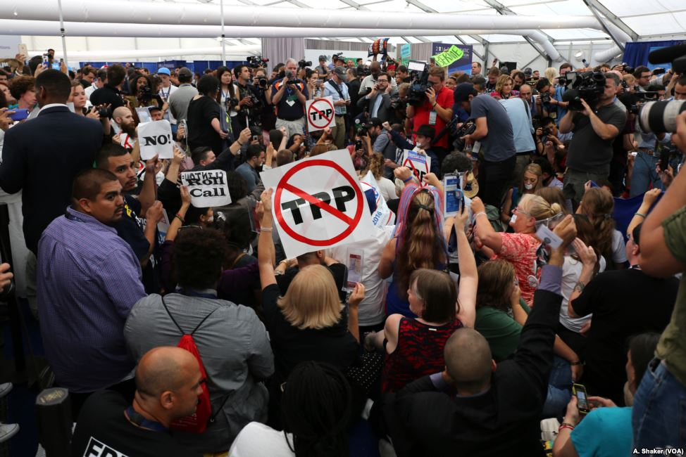 Protesters staginga silent protest in the 2016 Democratic National Convention's media center (located outside of the Wells Fargo Arena, where the convention was held)